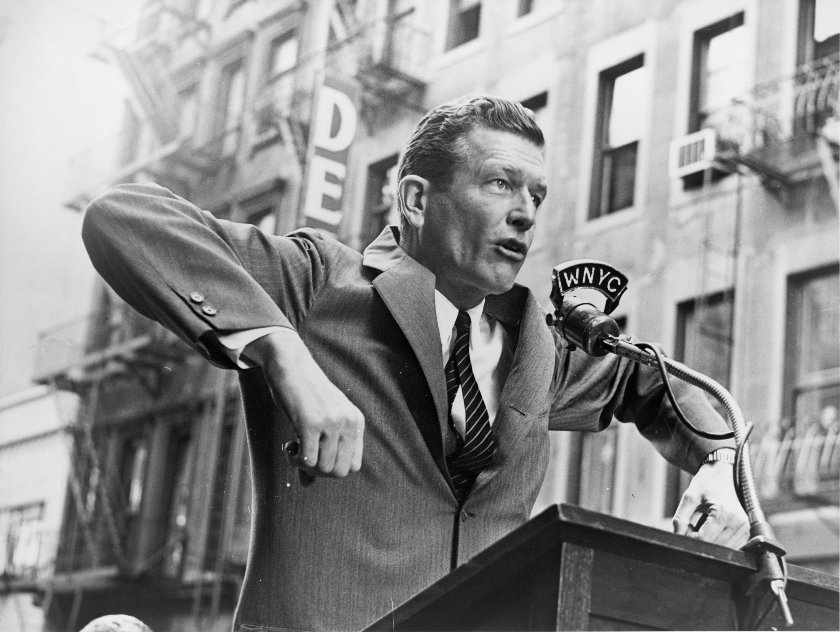 John Lindsay speaking at a senior citizen's rally? / World Telegram & Sun photo by Walter Albertin.